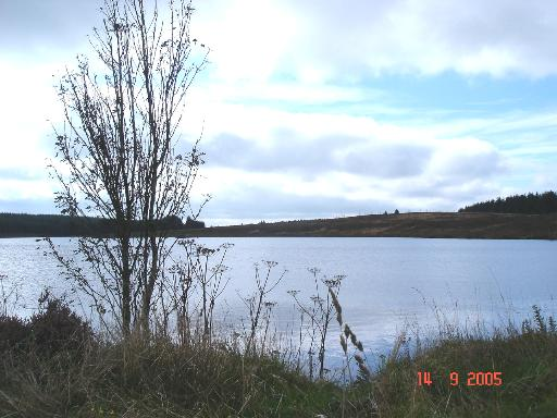 Llyn Bran. Welsh Water owned reservoir at the start of the Denbigh moors